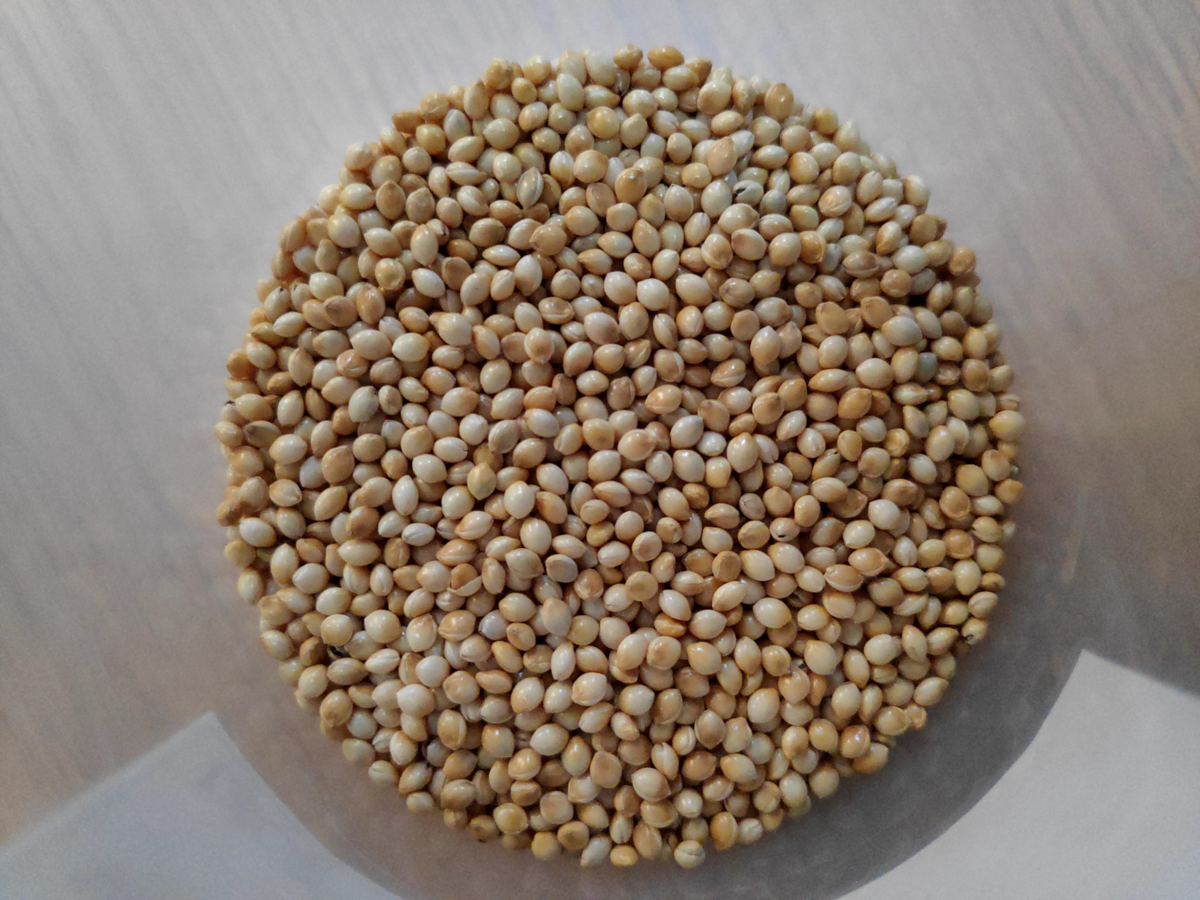 White Proso Millet from Jumla, Nepal.